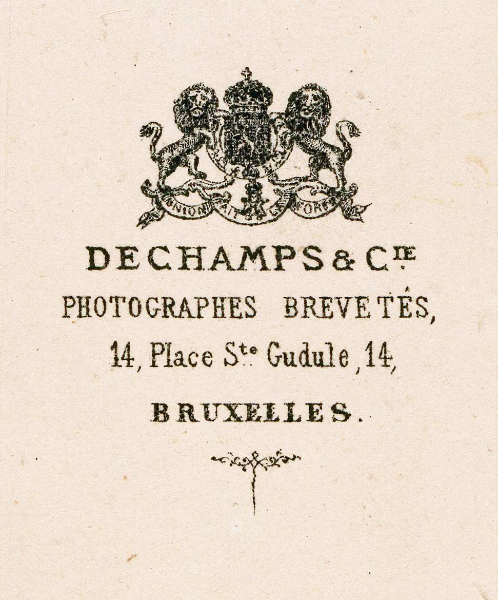 Trademark of the Belgian photographer Pierre-Edouard Dechamps (1828-1896)